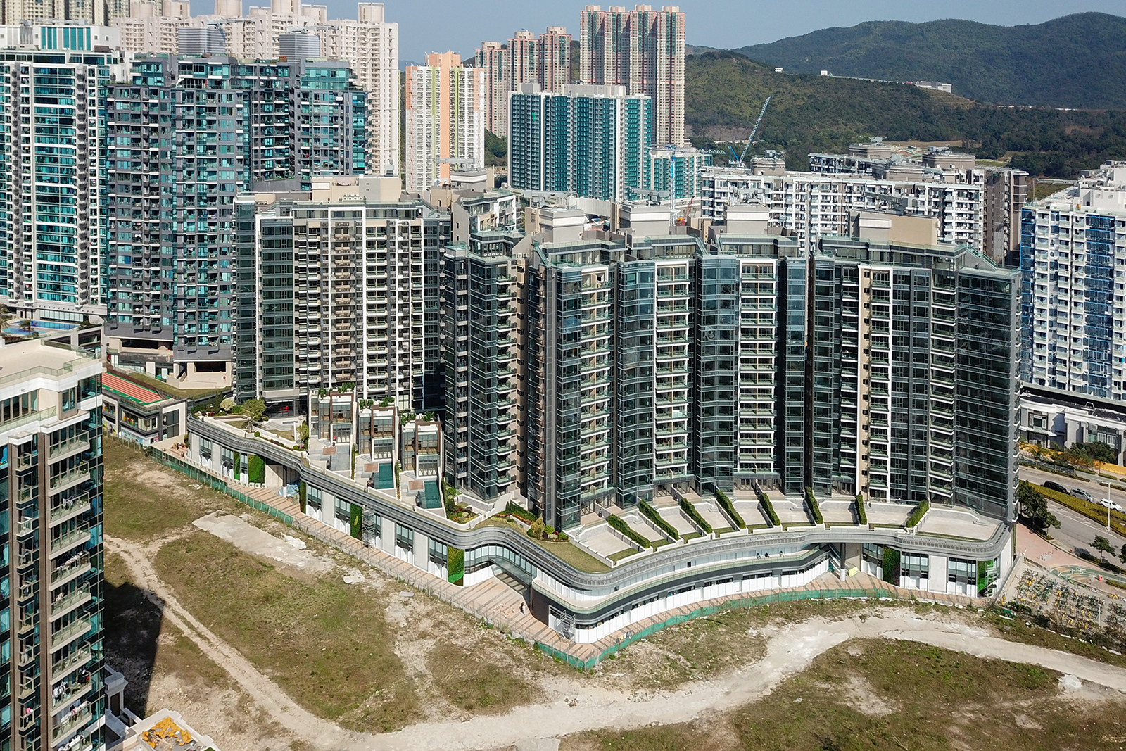 Ocean Wings